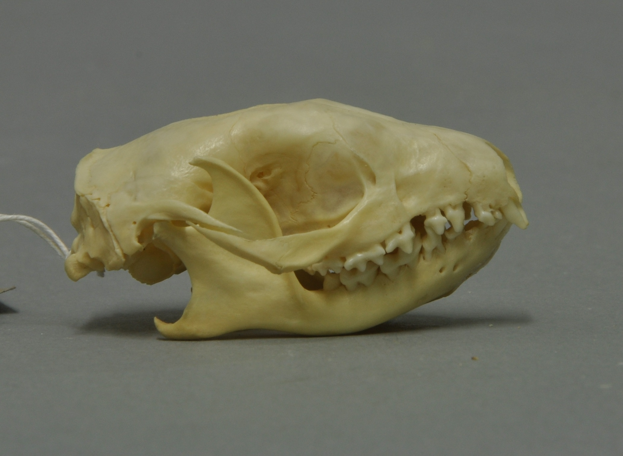 Four-toed Hedgehog Atelerix albiventris, skull, Coll. Museum Wiesbaden